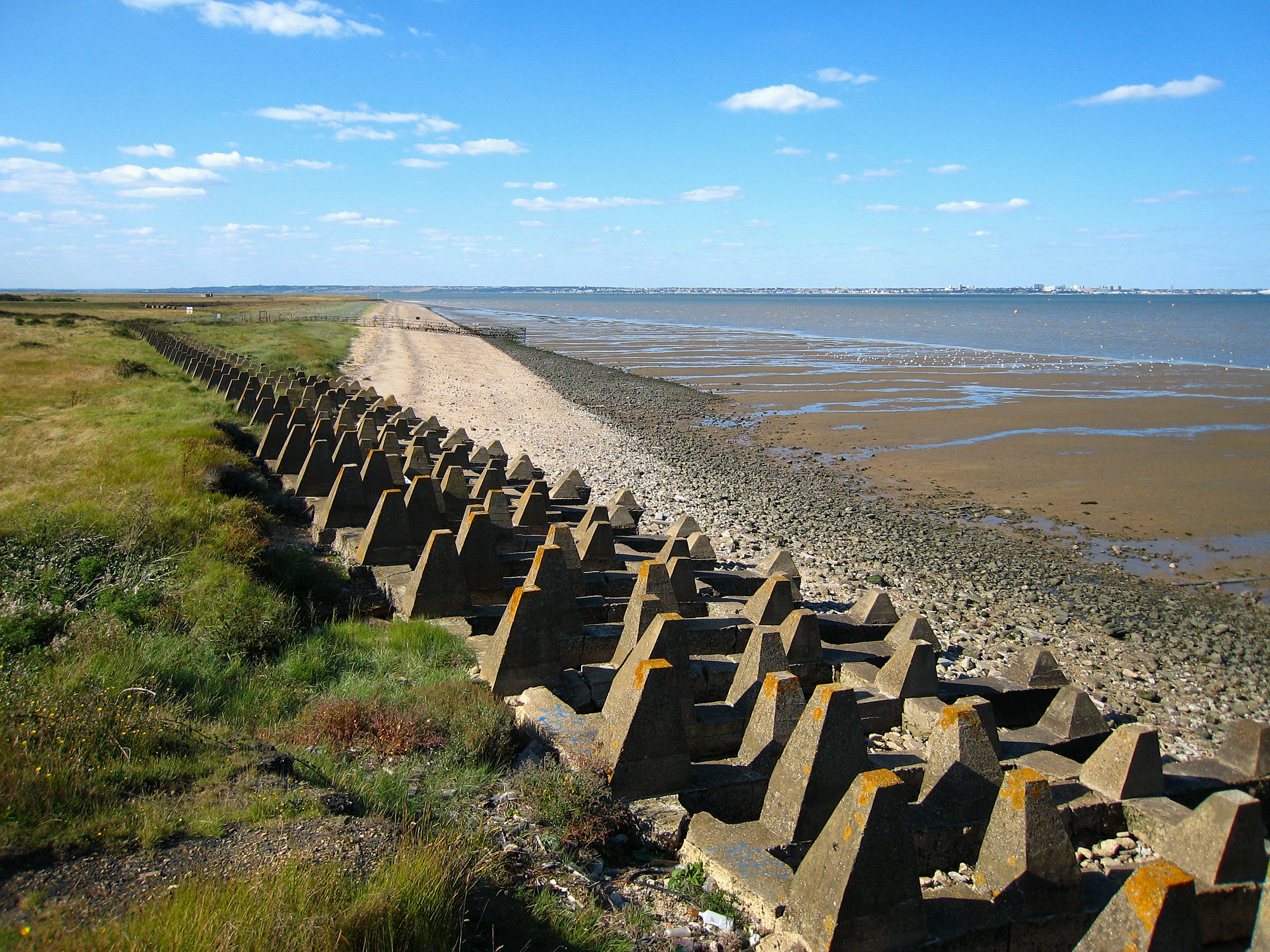 Grain, Kent, England. World War 2 anti-tank obstacles on the foreshore. Wikidata has entry Q26672332 with data related to this item.